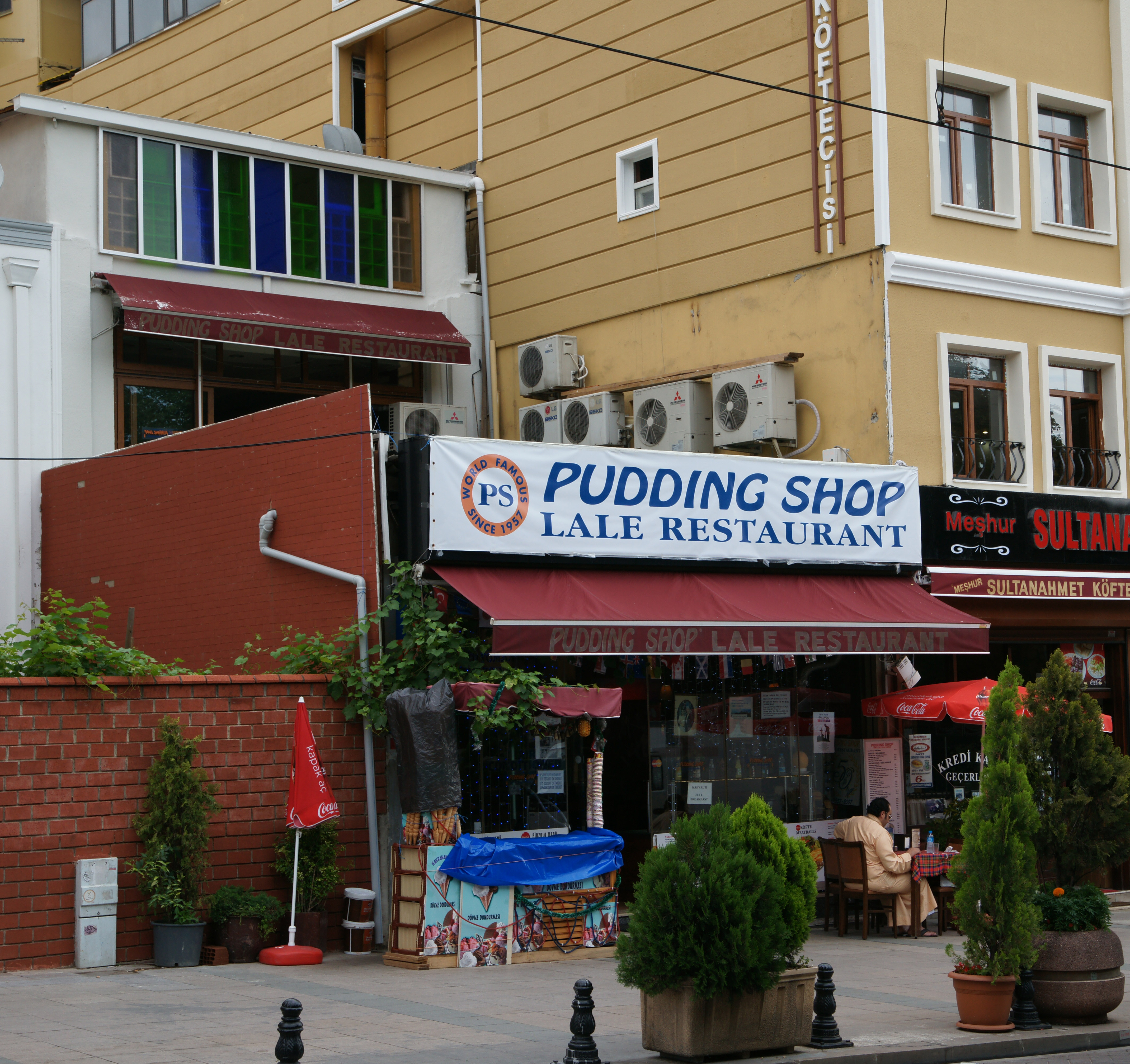 The Pudding Shop restaurant, Istanbul.